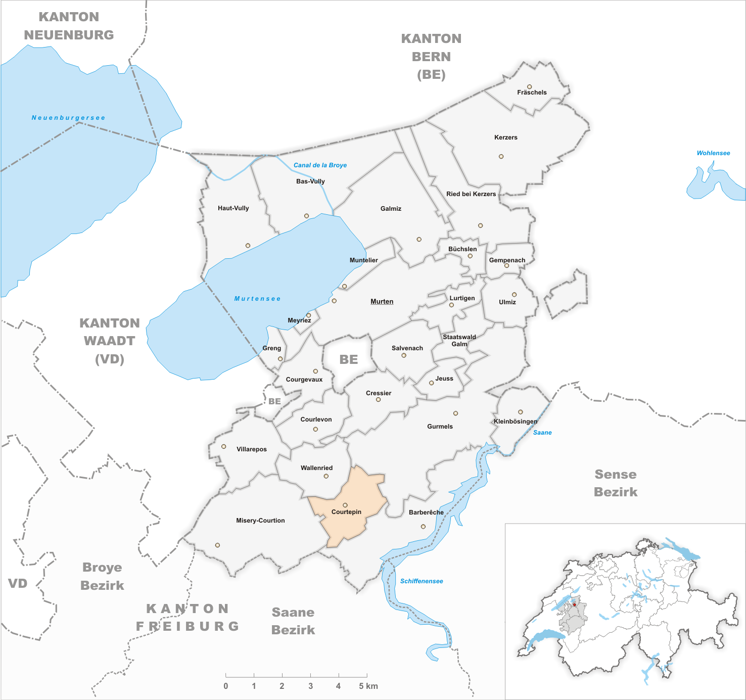 Municipality Courtepin